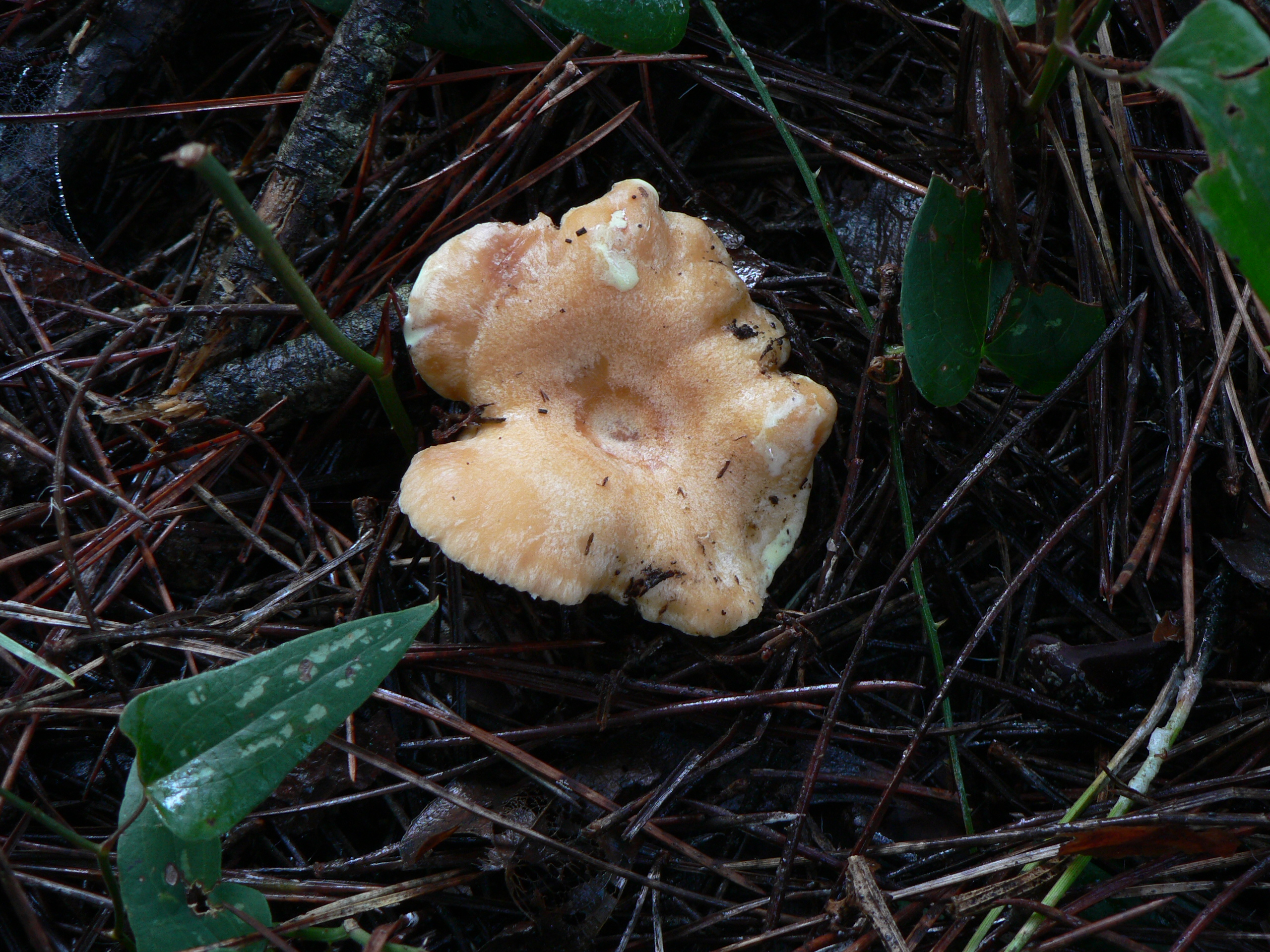 Lactarius chrysorrheus